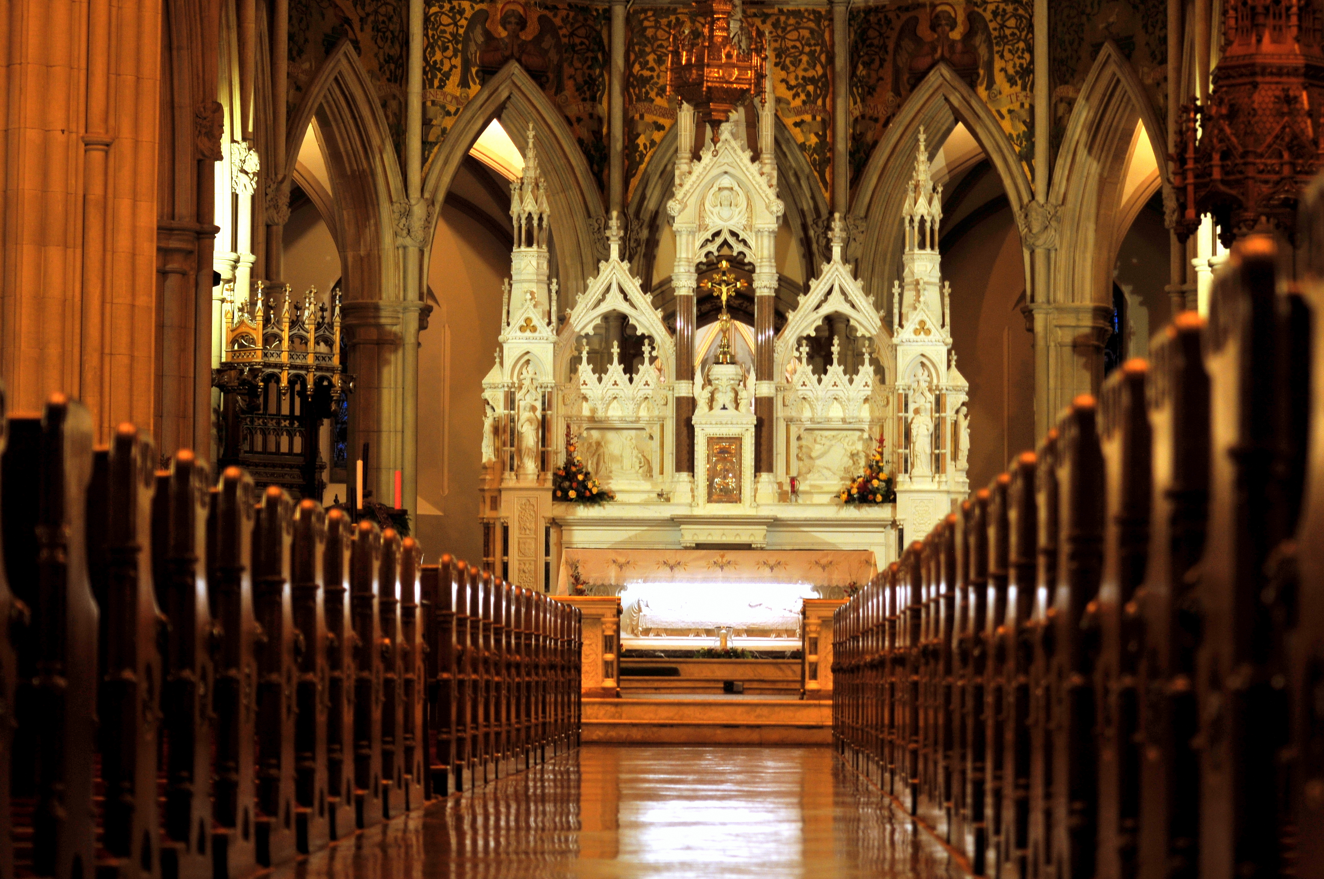 Inside view of St Eunans Cathedral Letterkenny